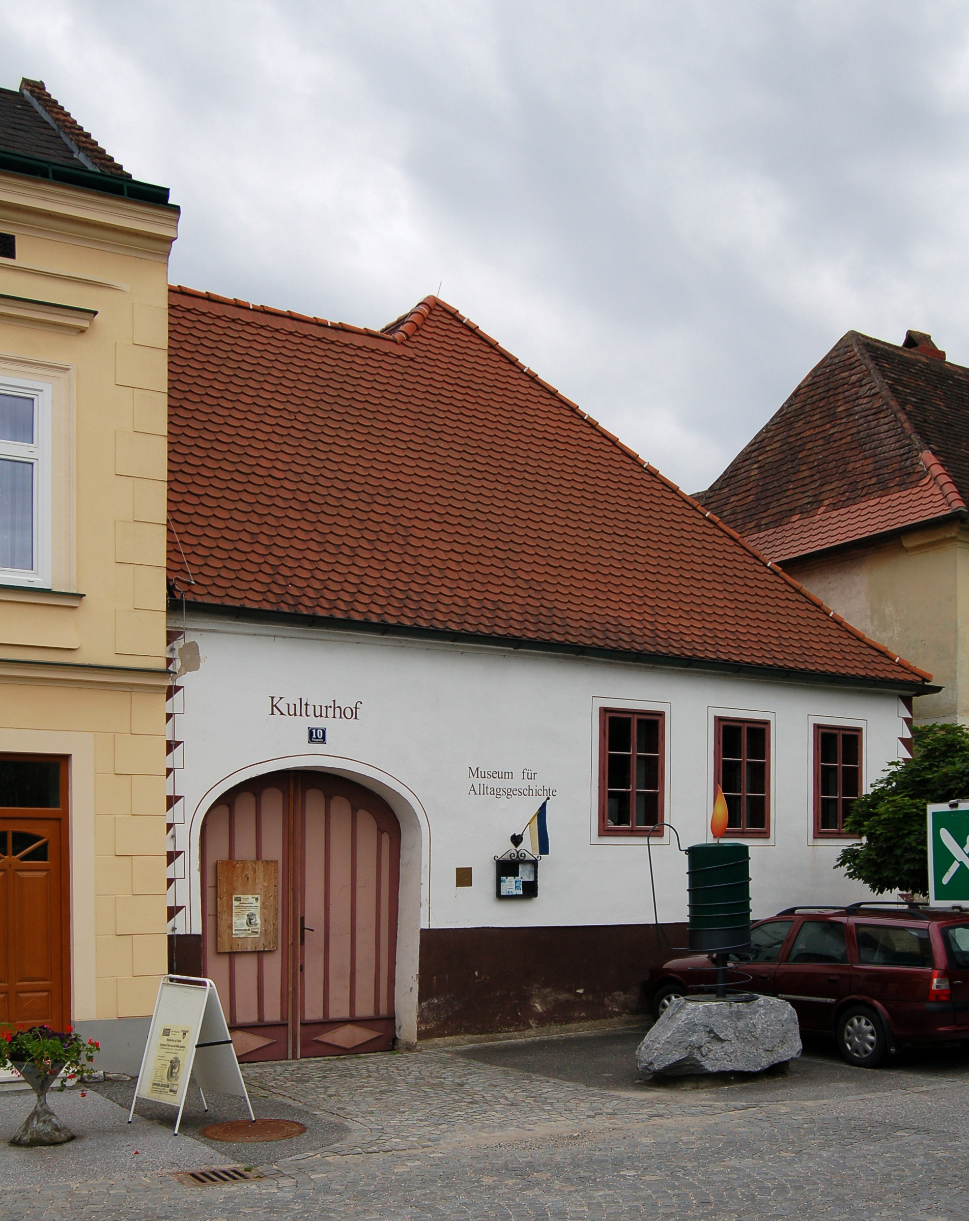 Museum for Alltagsgeschichte (everyday life) in Neupölla, municipality Pölla, Lower Austria.